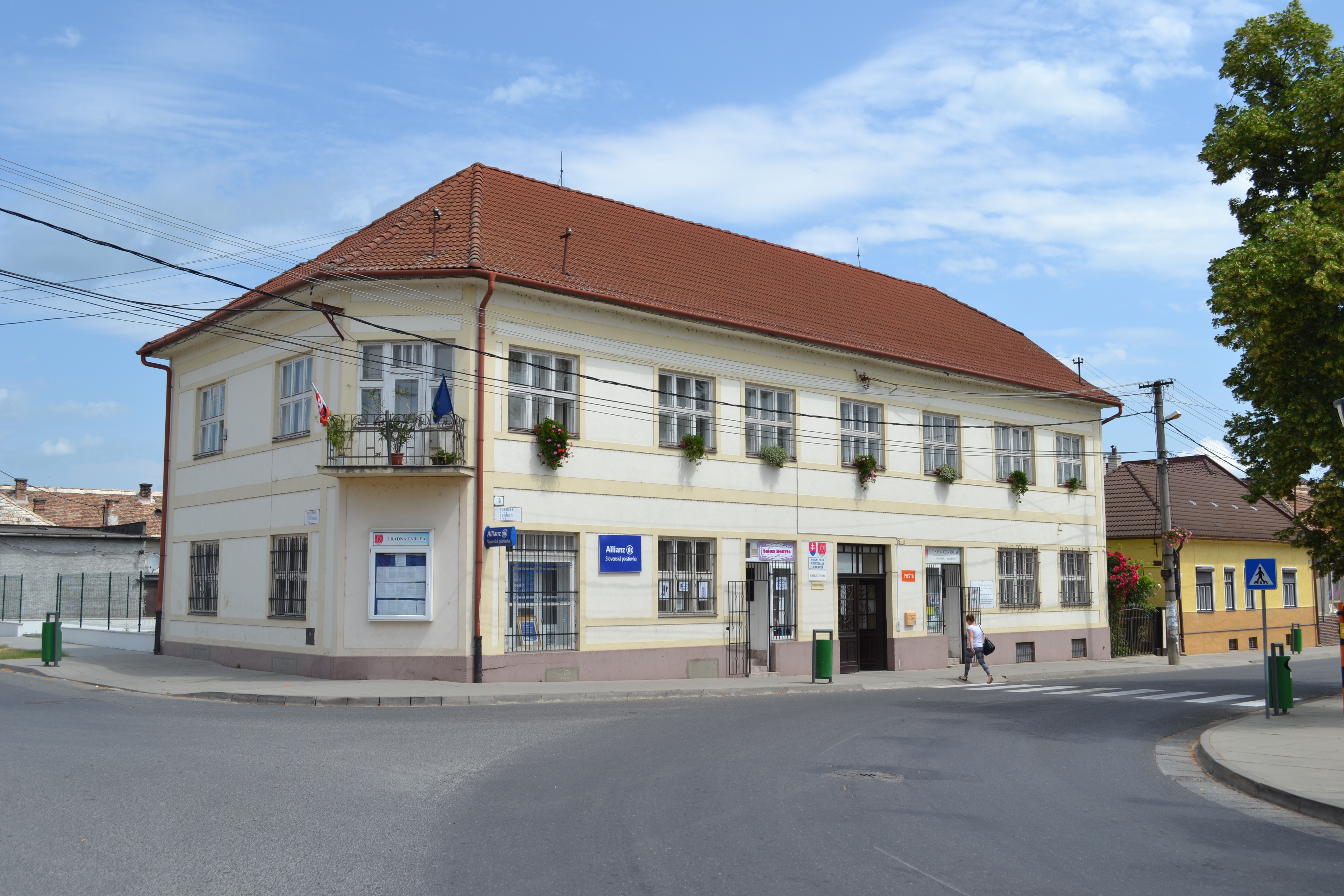 Municipal Office in the village JesenskéSlovenčina: Obecný úrad v Jesenskom